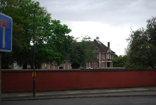 Wilson Hospital